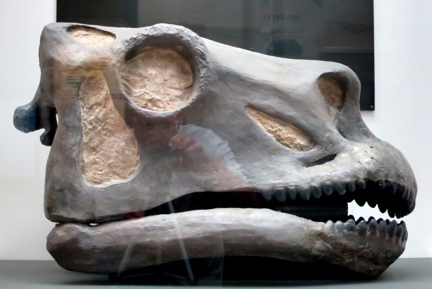 The skull from the original mount of Brontosaurus (= Apatosaurus excelsus) holotype YPM 1980. This skull was sculpted by hand by an unknown author for the Yale Peabody Museum before 1931. In 1931 the skull was unveiled to the public as the affixed head of the overall skeletal mount. What it is known today is that this skull had been previously sculpted at some point between the late 1890s and the moment in 1931 when it was unveiled to the public at the Yale Peabody Museum. Partial bones from a real fossilised dinosaur skull were used when sculpting this skull, but it is admitted today that these remains belonged to the Brachiosaurus genus.